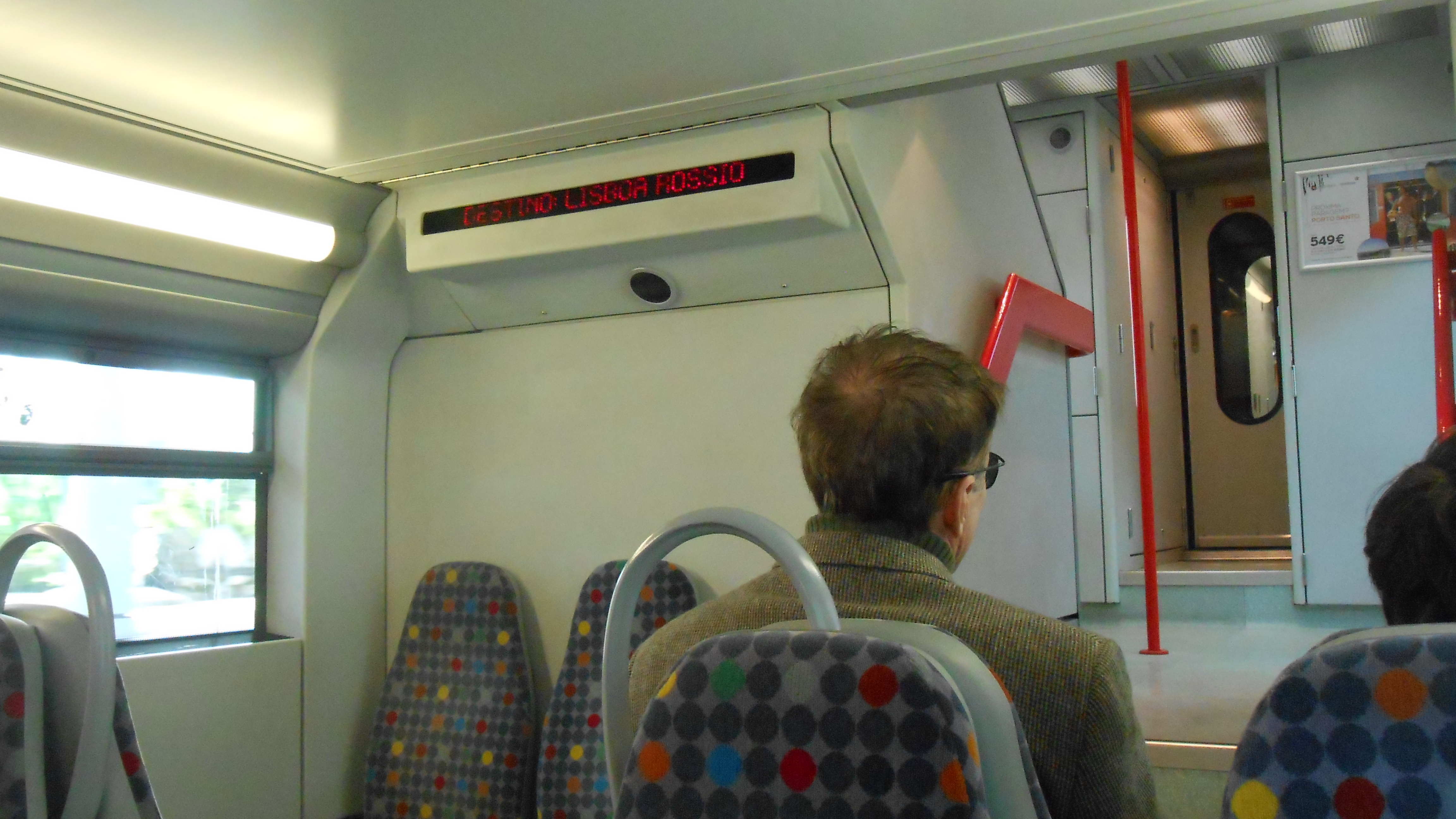 Inside the bilevel rail car, in the Sintra train station, waiting for departure to Lisbon-Rossio.